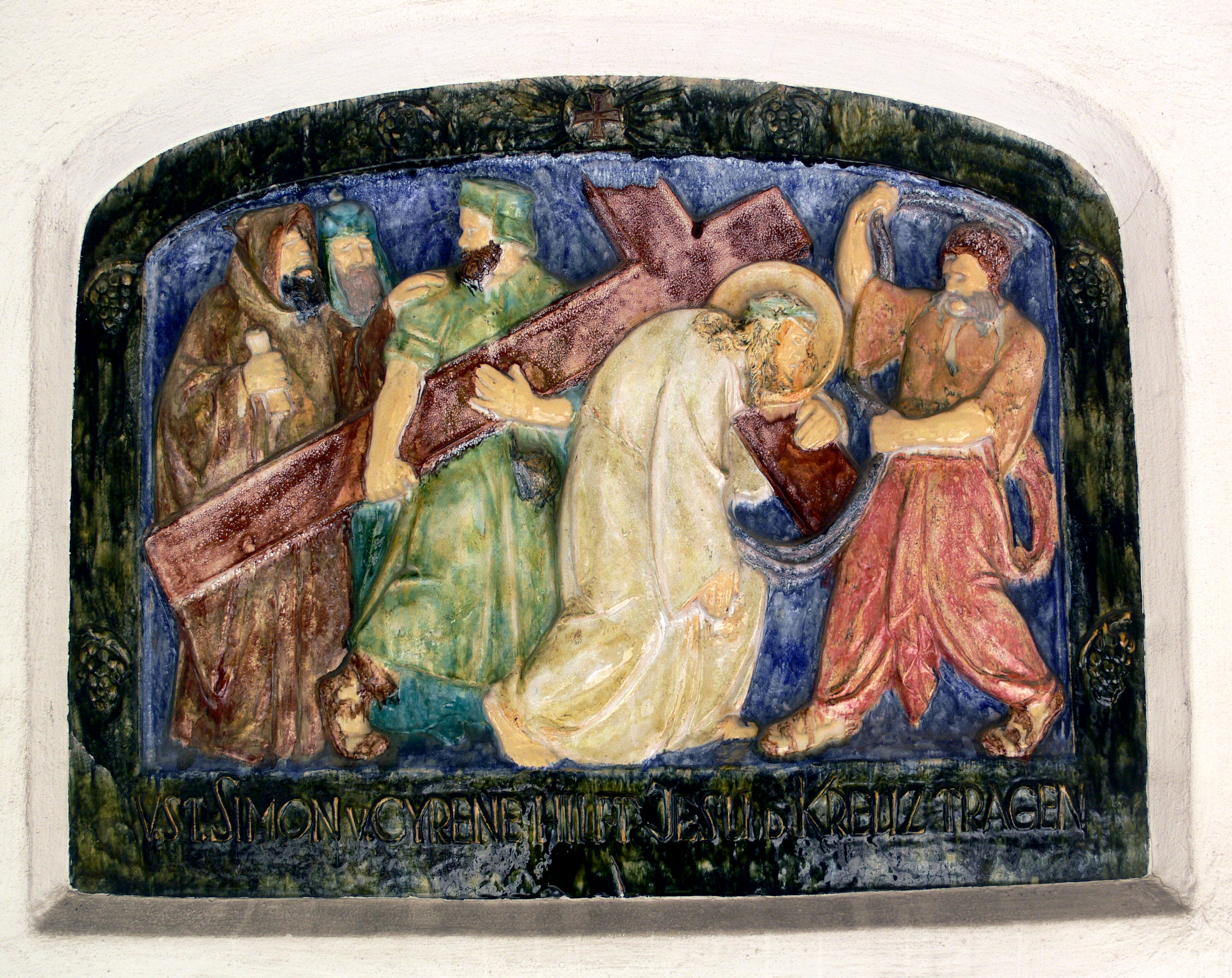 Church St. Nikolai am Gasteig, Munich: Stations of the cross on the exterior of the Altötting Chapel, majolica sculptures by Valentin Kraus, 1926.